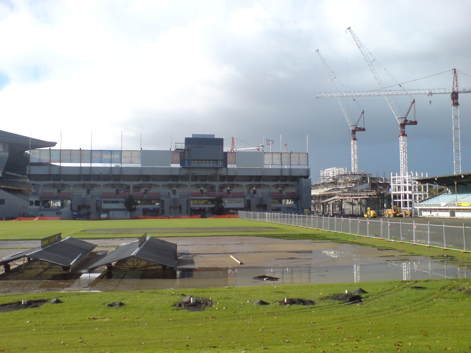 Looking east over the West Stand and work on the upgraded South Stand of Eden Park Stadium in Auckland City, New Zealand, in preparation for the Rugby World Cup 2011.